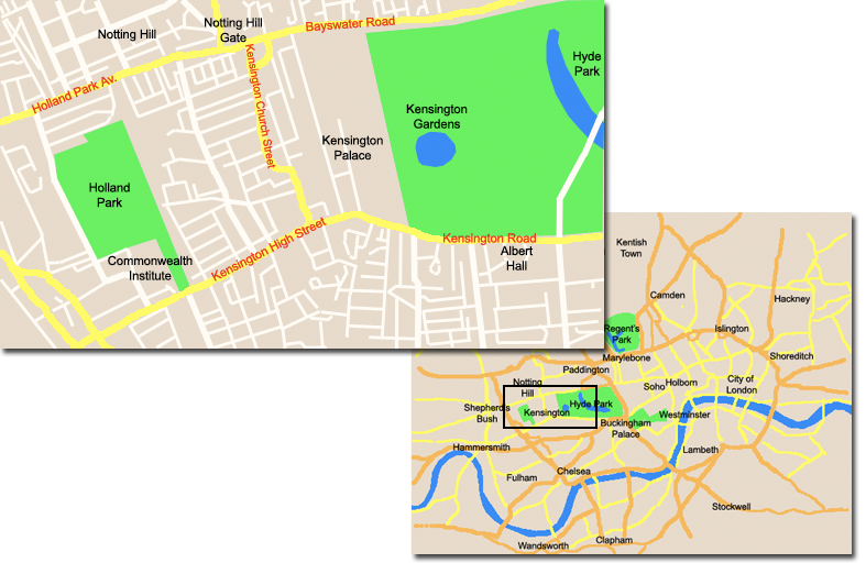 Map of central Kensington in London. Made by me, Thomas Blomberg.